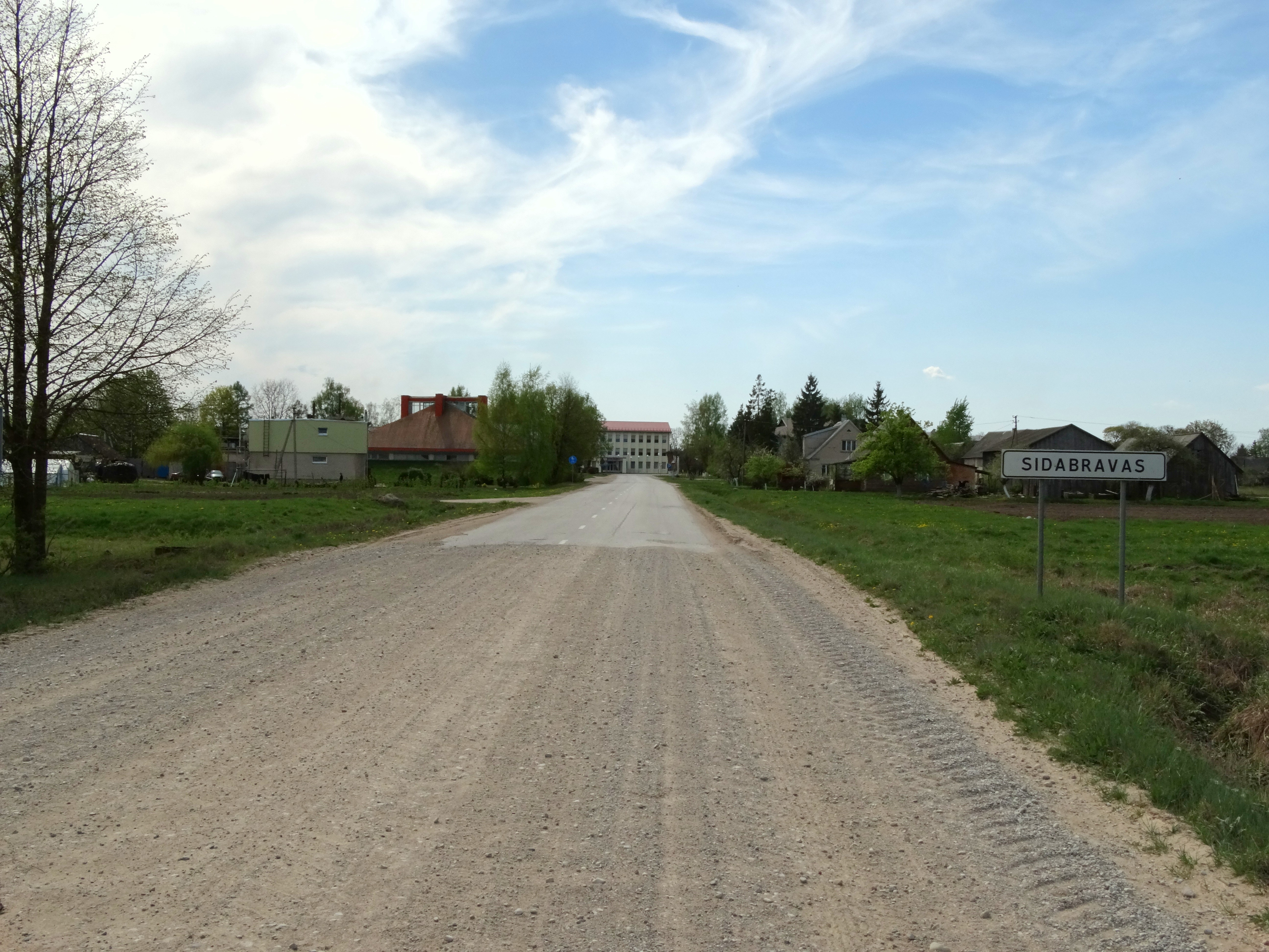 Sidabravas, Radviliškis District, Lithuania